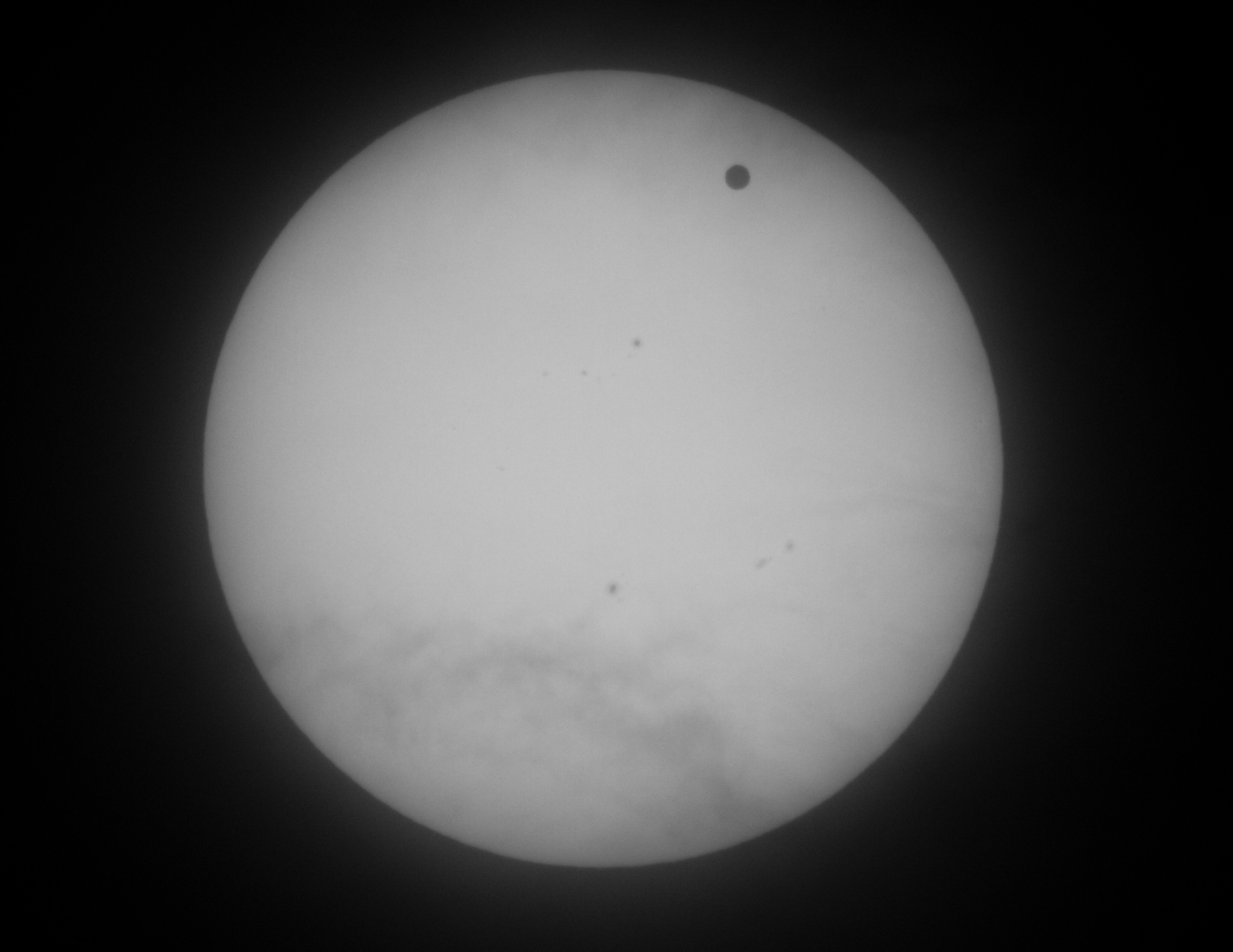 2012 Transit of Venus. Equipment used: Celestron Omni XLT 120, Canon EOS 7D, AstroSolar Safety Film.